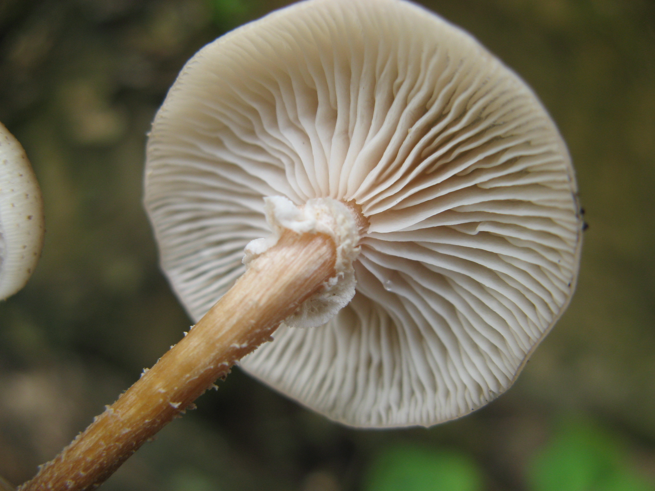 The gills of the honey mushroom Armillaria puiggarii Speg. Specimen collected in Talpa, Jalisco, Mexico.